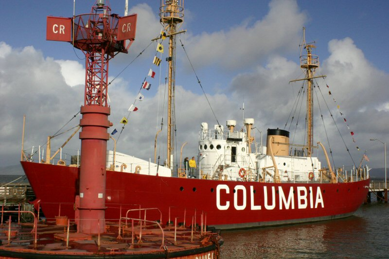 The Lightship Columbia (WLV-604) is a United States National Historic Landmark. It is presently docked in Astoria, Oregon.